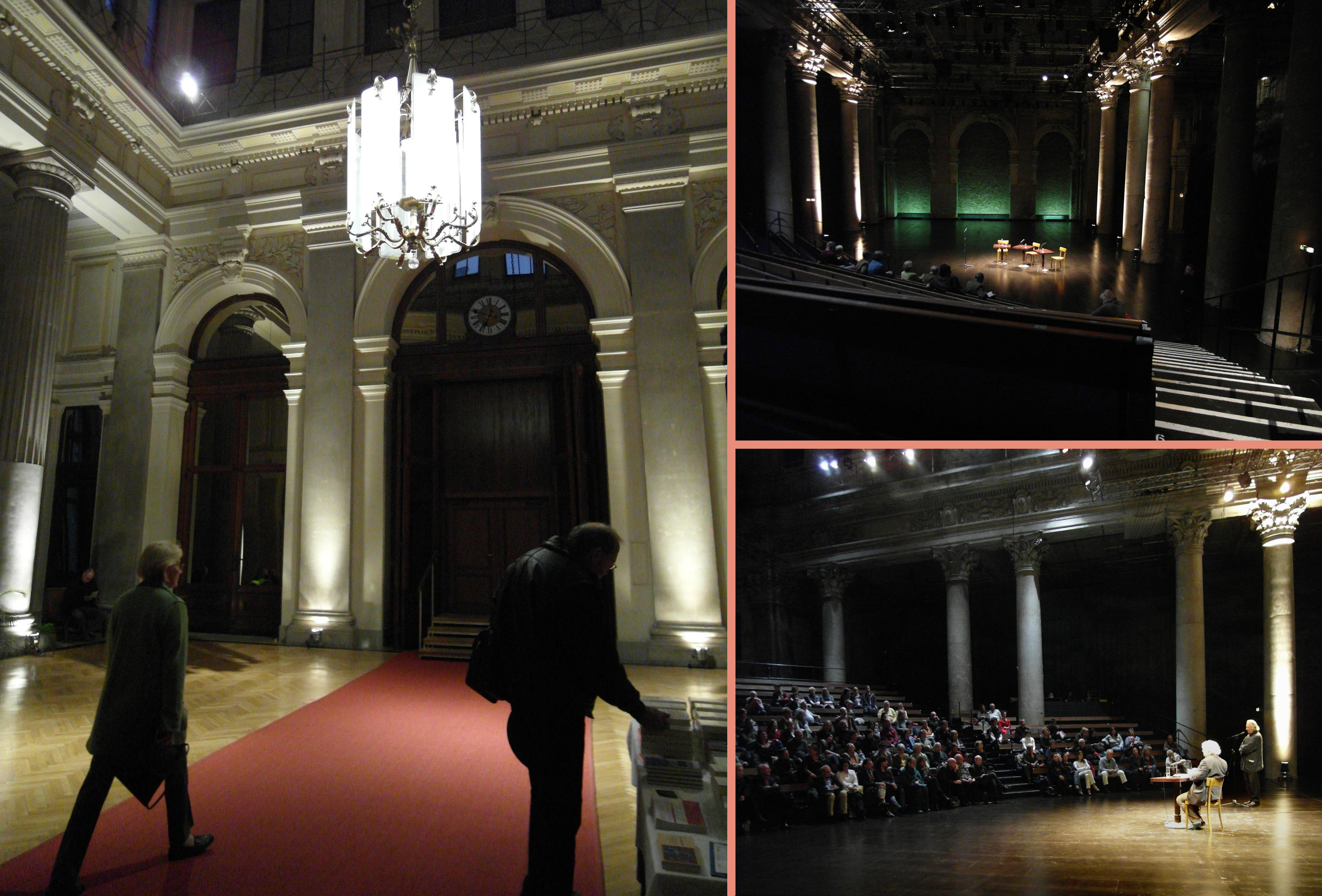 Viennese 'Odeon' Theatre.